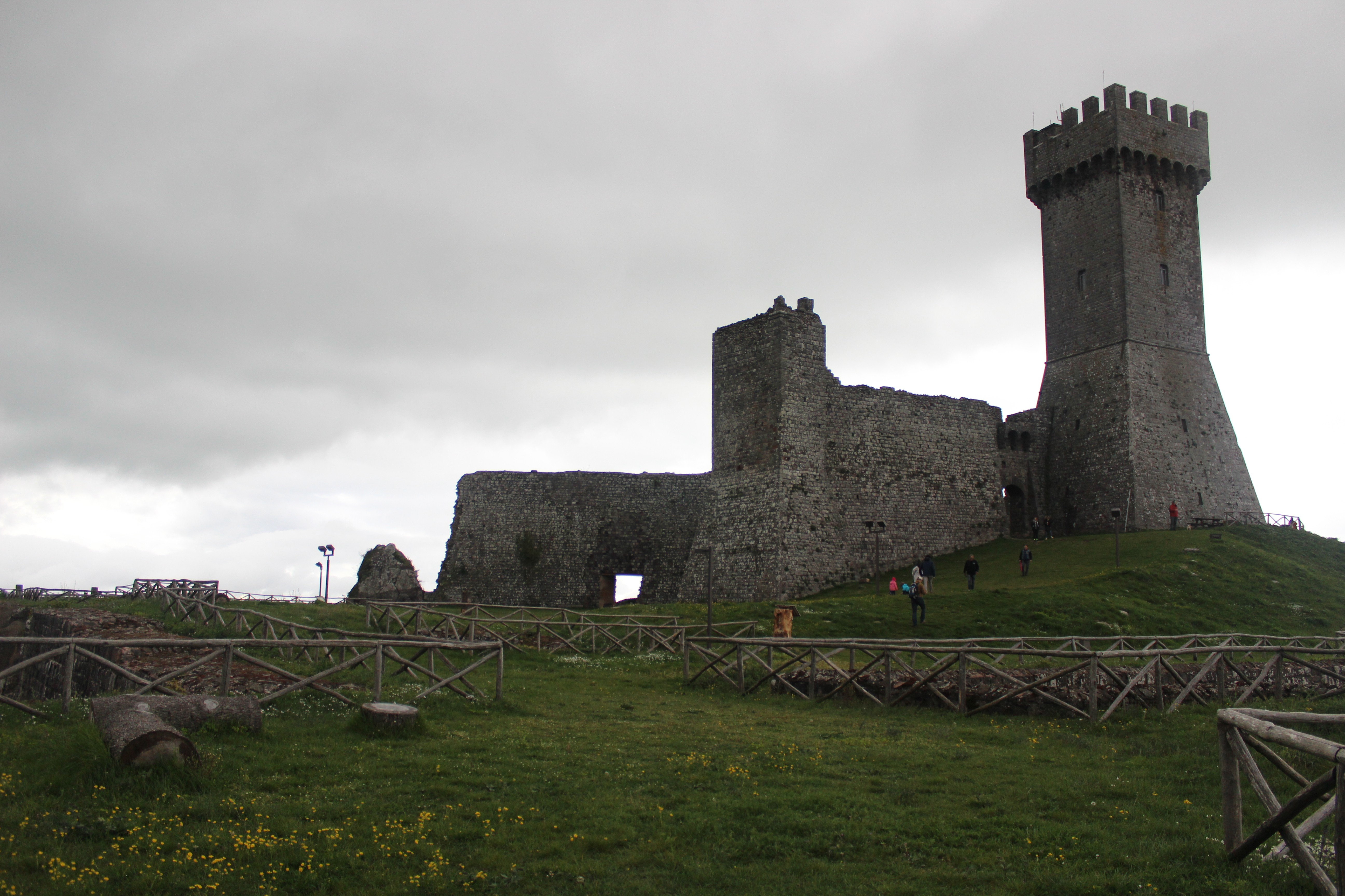 The fortress of Radicofani, Tuscany, Italy